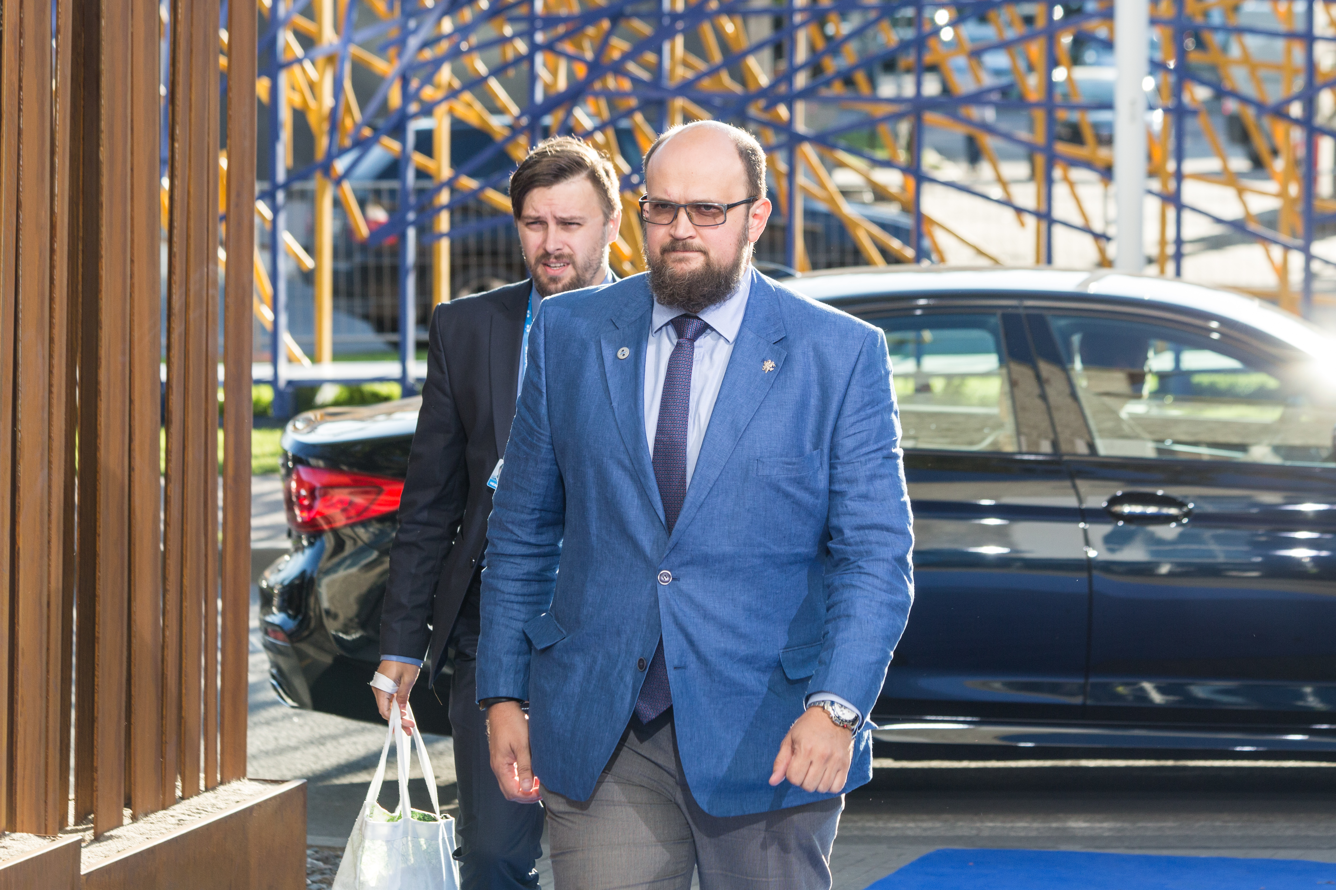 Rolandas Taraškevičius, Vice Minister, Ministry of Agriculture, Lithuania Photo: Aron Urb (EU2017EE)